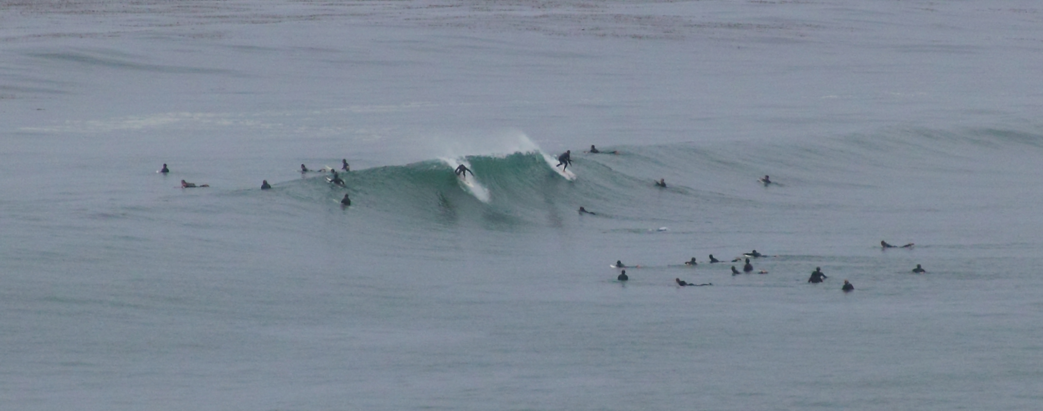 The main peak at the Southern California surf spot known as Swami's — in Encinitas, San Diego County, California. Taken in September of 2011 on a rare strong summer swell. Swami's is primarily a winter surf spot, but this particular swell was very large (up to twelve feet) in most locations, creating unridable conditions at all but a few spots.